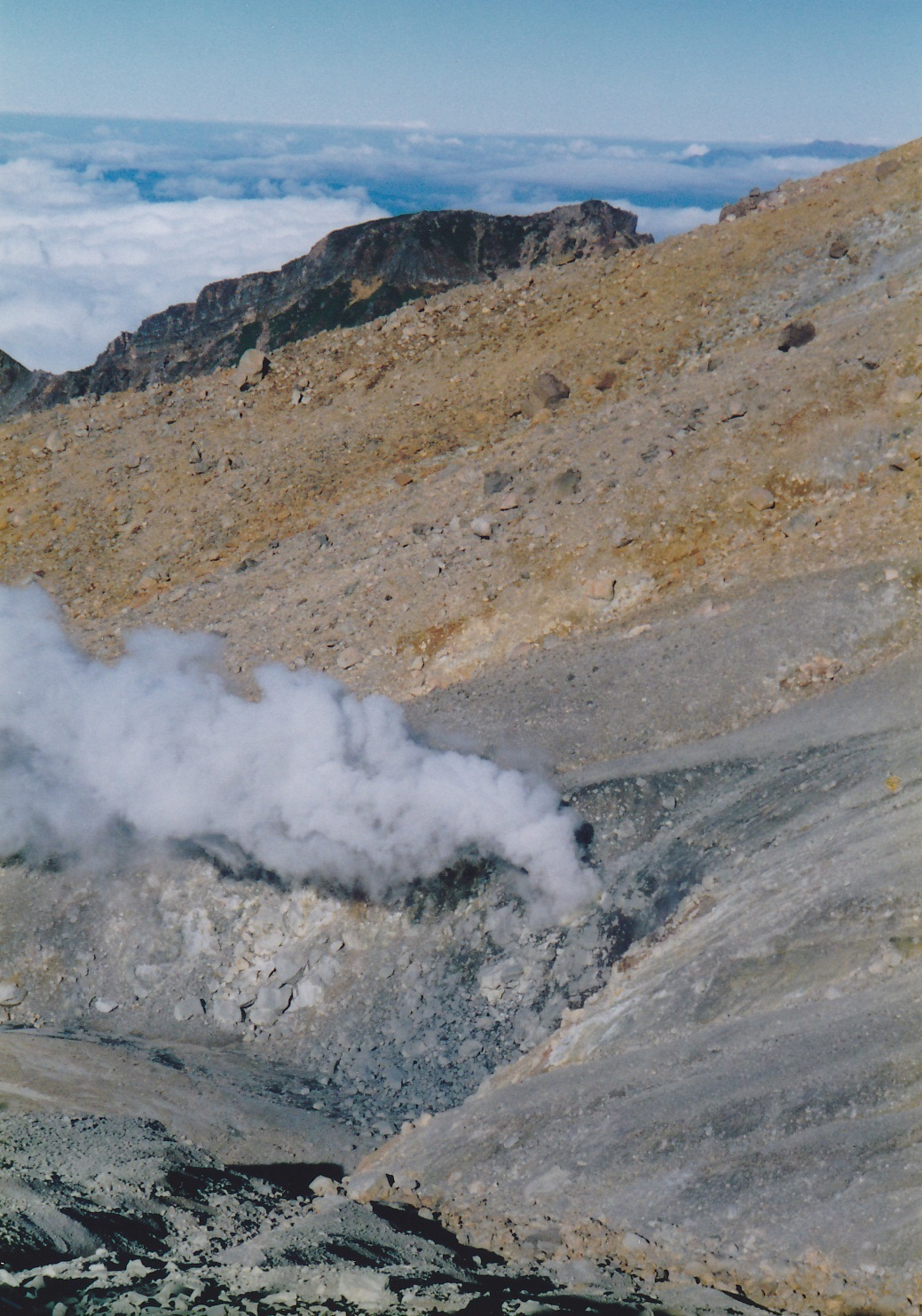 Volcanic gas of Mount Ontake, in Otaki, Nagano pref., Japan.